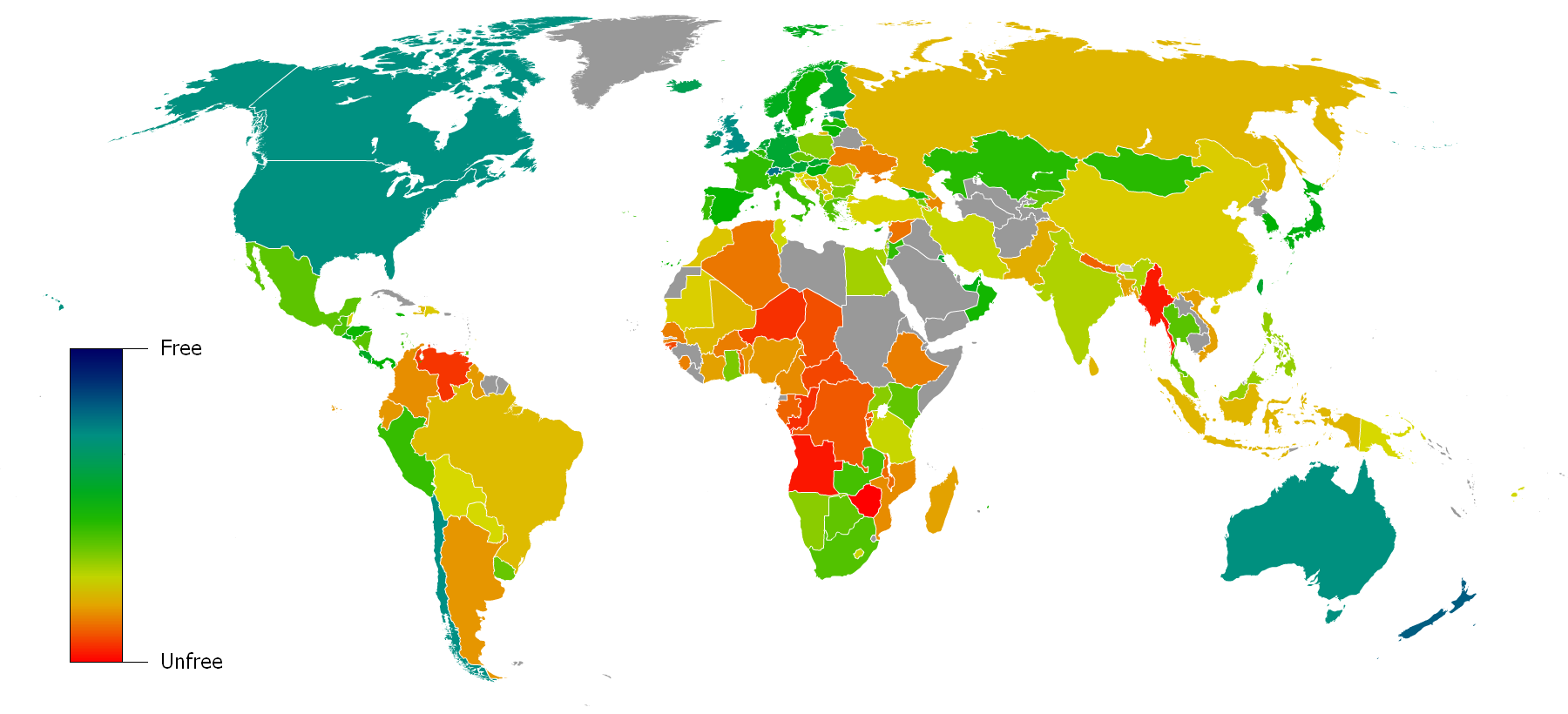 Countries by 2008 economic freedom index. The data was taken from on the 27th of June 2007.